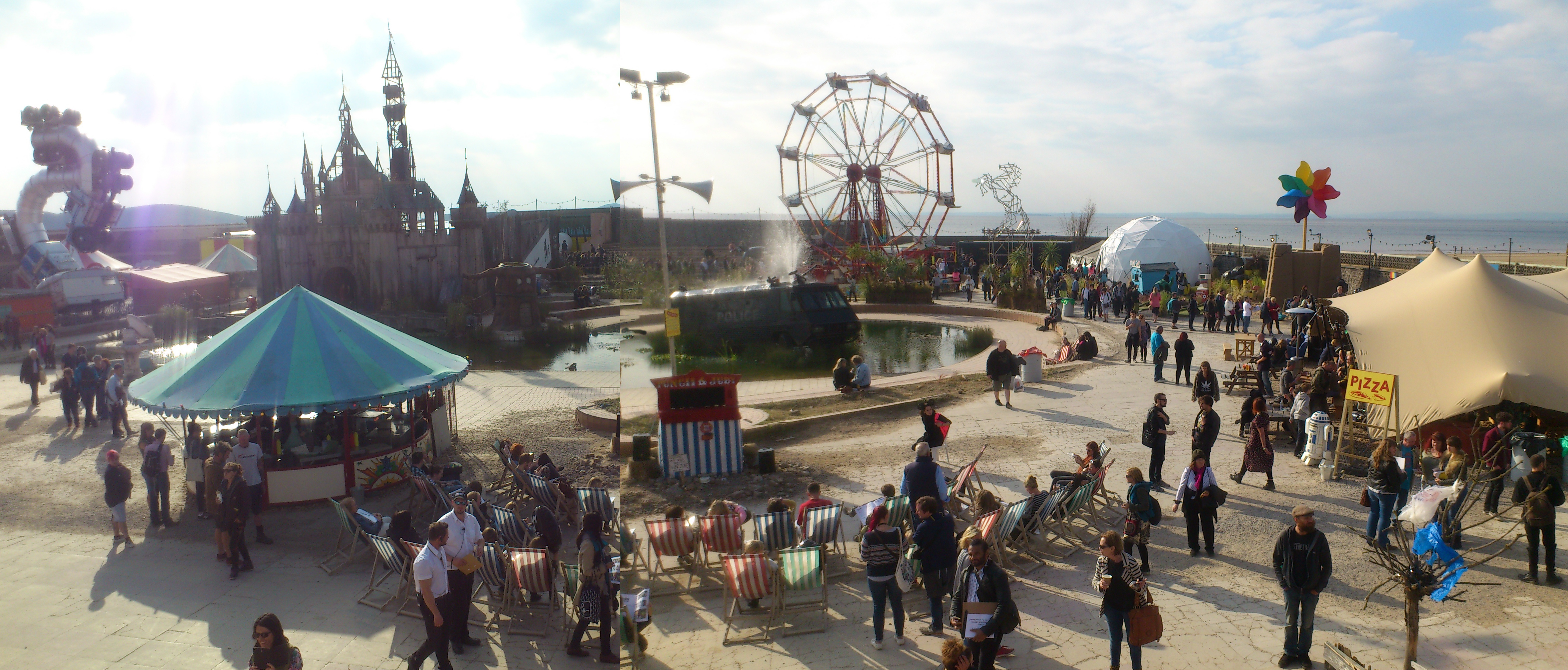 A panorama of Dismaland